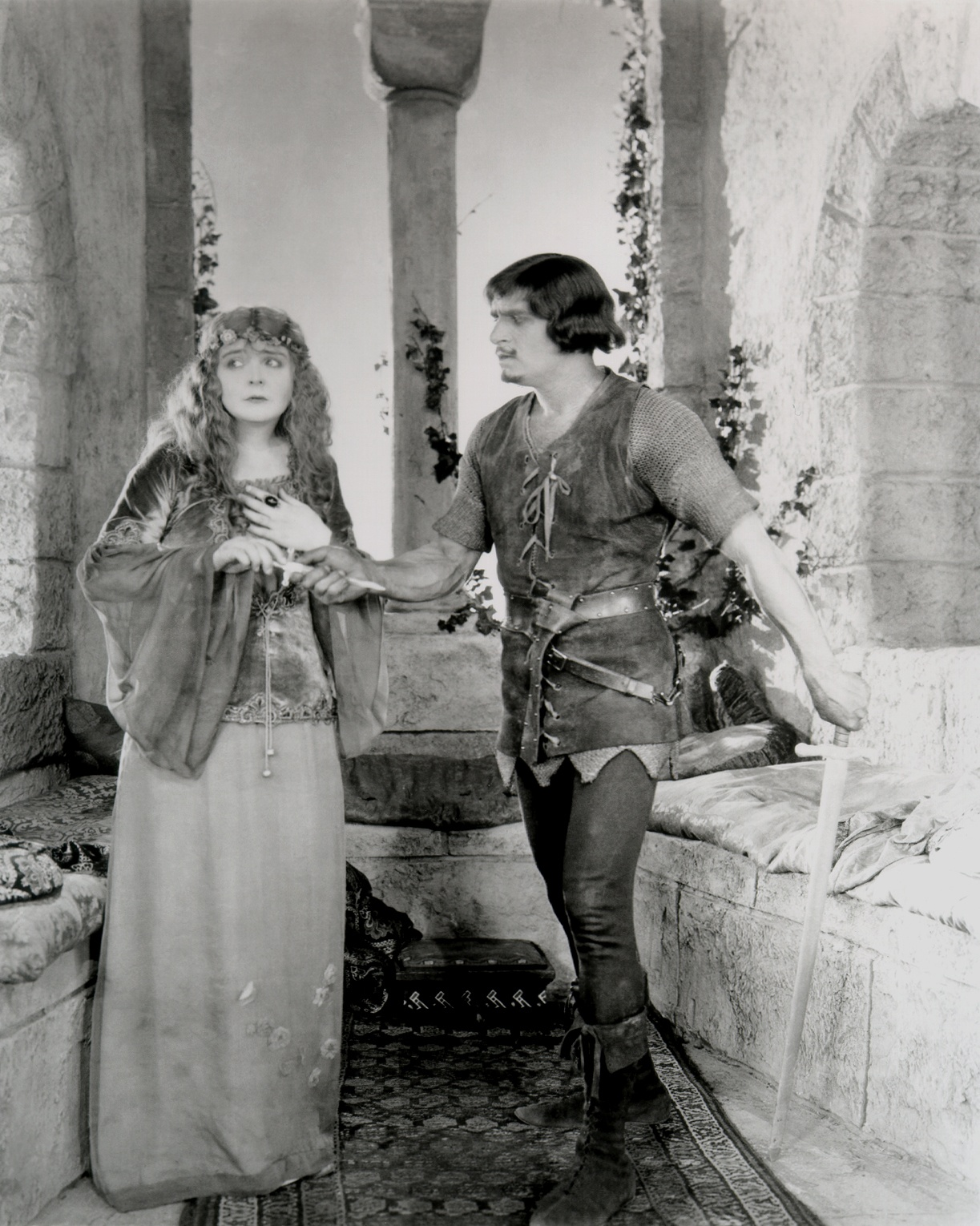 Douglas Fairbanks as Robin Hood giving Enid Bennett as Maid Marian (sic) a dagger; a screenshot from the 1922 United Artists film Robin Hood (1922).